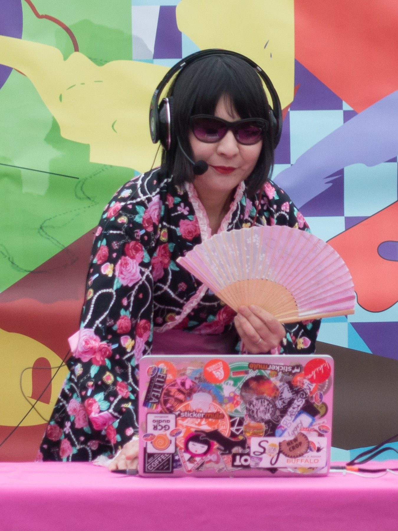 DJ Sashimi performing on the J-Lounge Stage at the Plant Family Collection, Brooklyn Botanic Garden, Brooklyn, New York City.